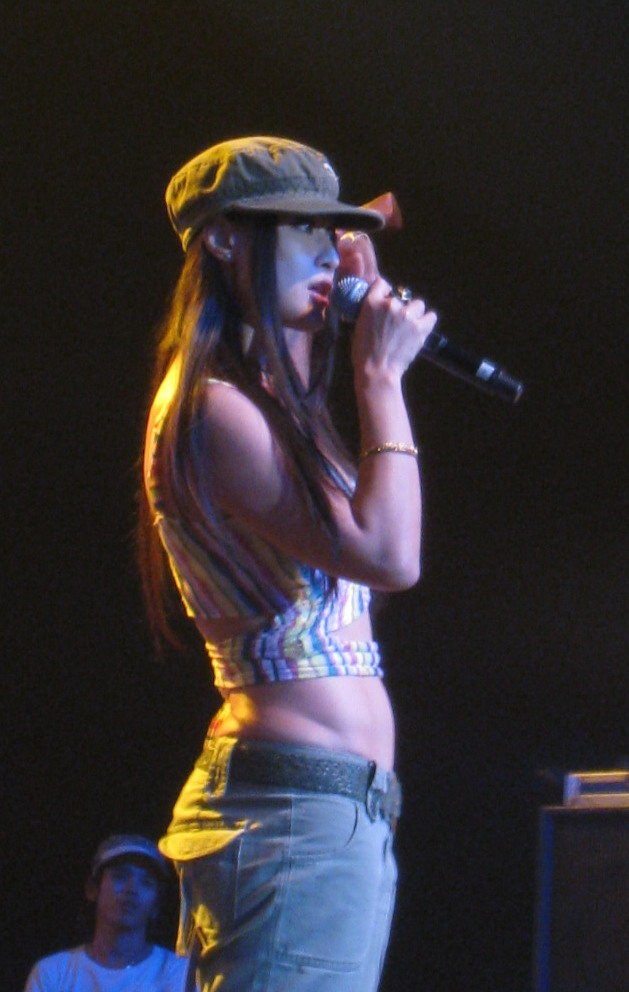 Ammara Siripong At One World Party